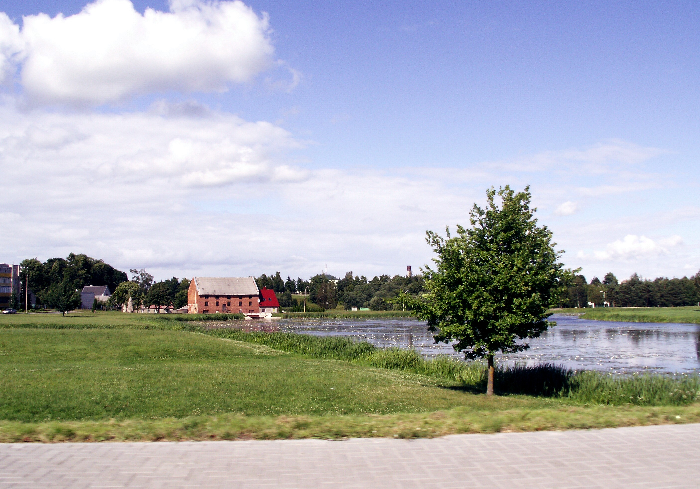 Kelmė